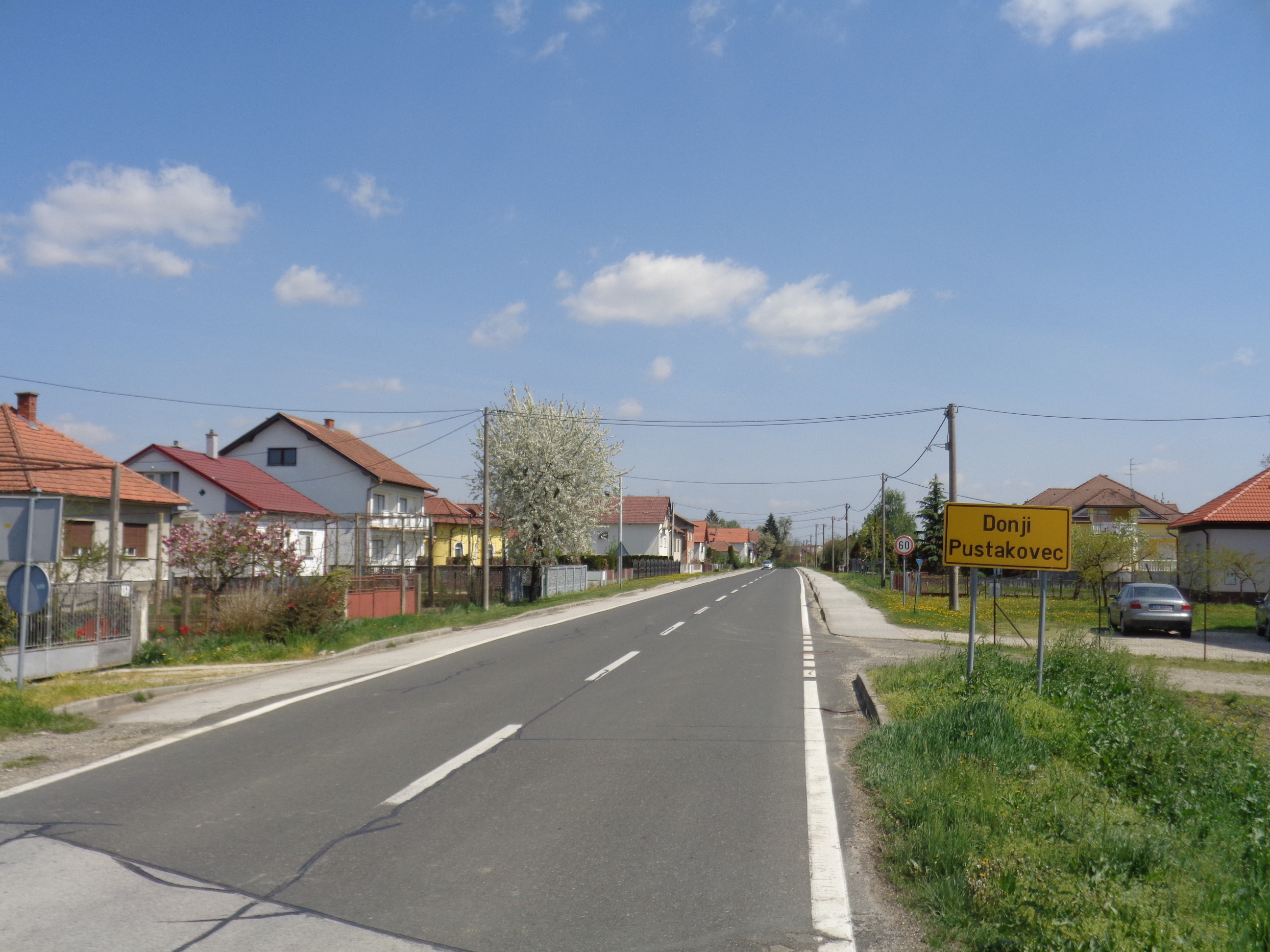 Donji Pustakovec village, Donji Kraljevec municipality, Medjimurje County, Croatia - entrance